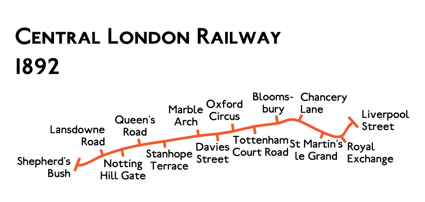 Geographic Map of the Central London Railway as planned in 1892.